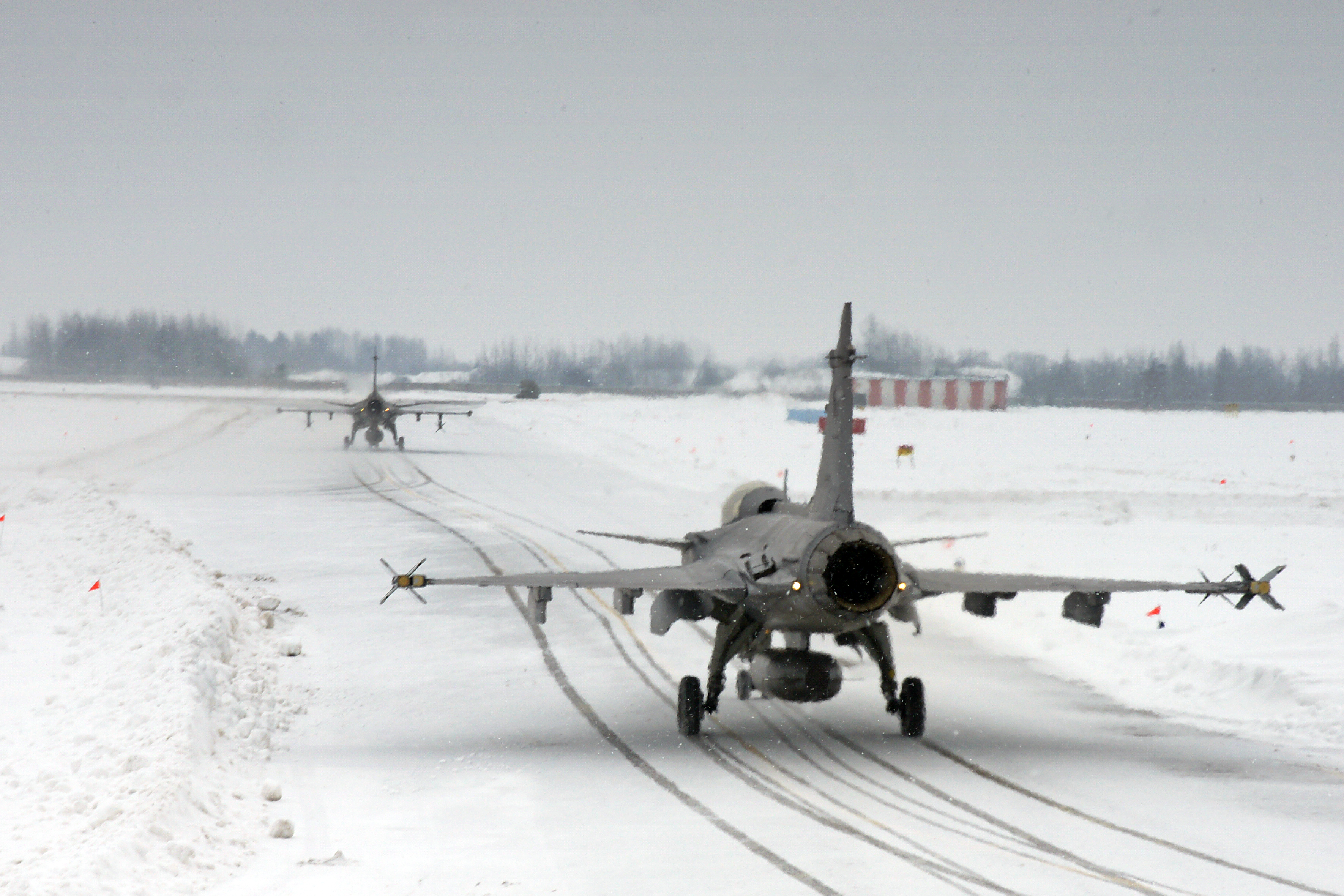 Saab JAS-39 Gripen (Czech Air Force) at Šiauliai Airport